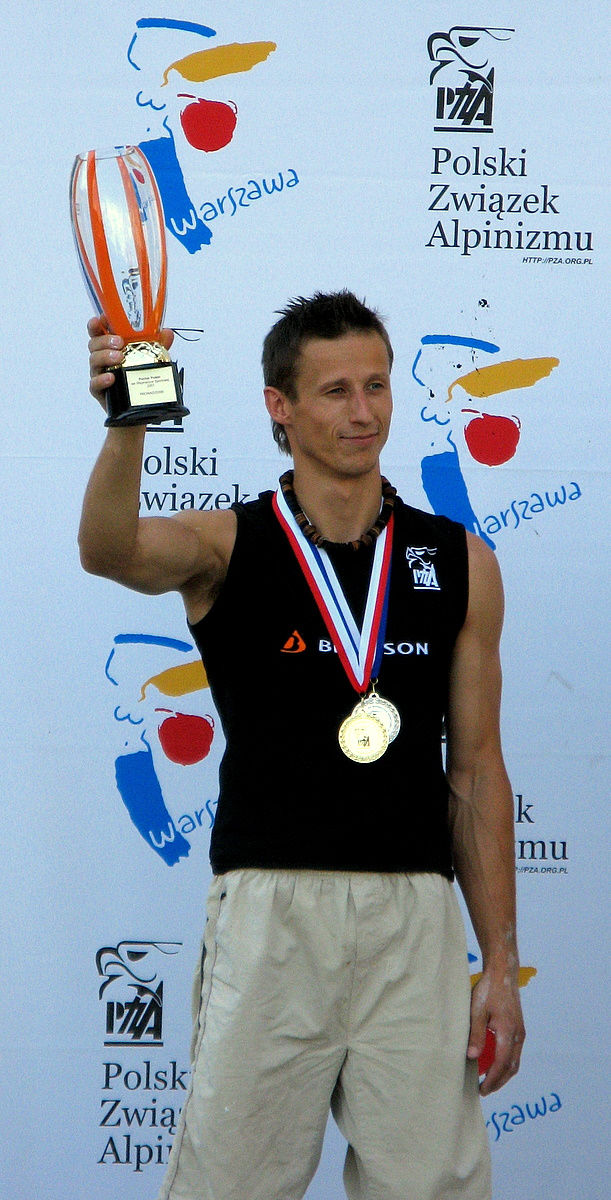 Tomasz Oleksy